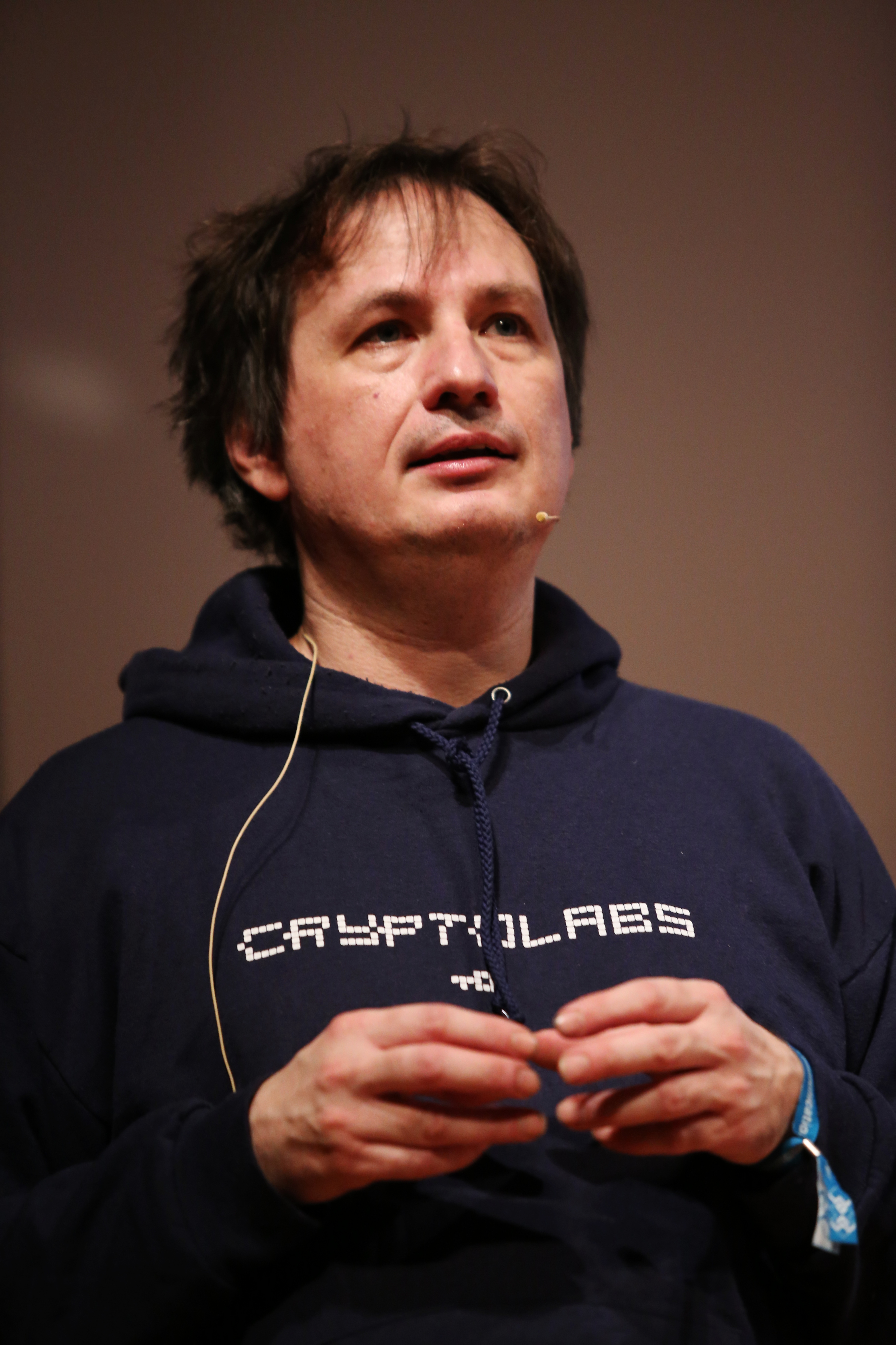 Rüdiger Weis at the 30th Chaos Communication Congress